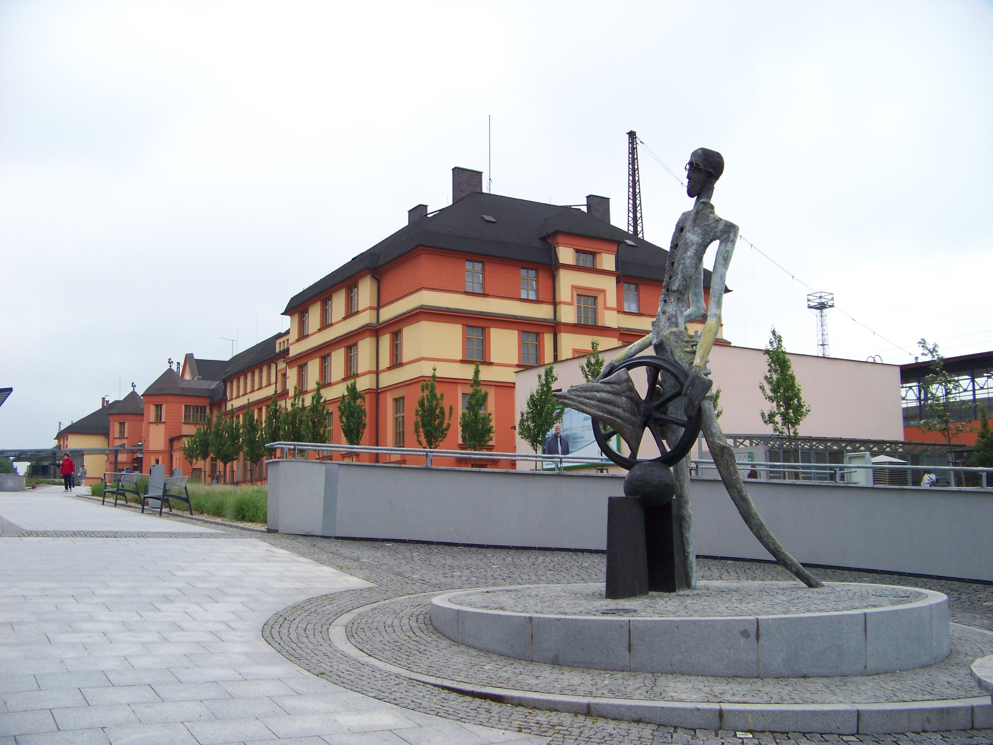 Česká Třebová, Ústí nad Orlicí District, Pardubice Region. Jan Perner Square, statue of Jan Perner, a train station. - OpenStreetMap(Info)